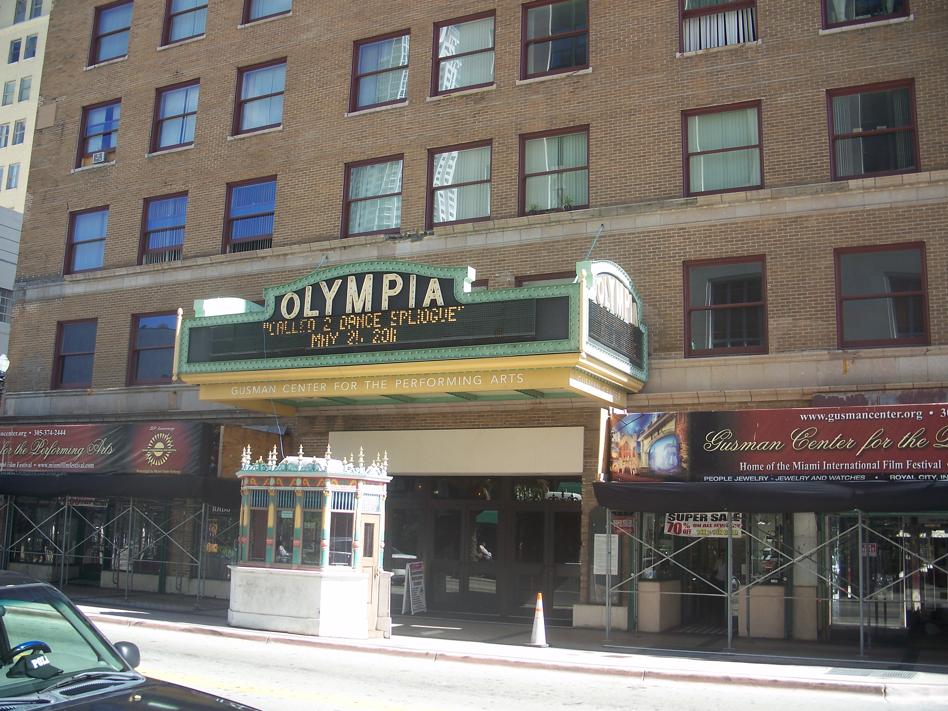 Miami, Florida: Downtown Miami Historic District: Olympia Theater and Office Building